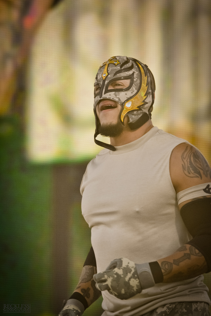 Rey Mysterio at the Tribute to the Troops 2010